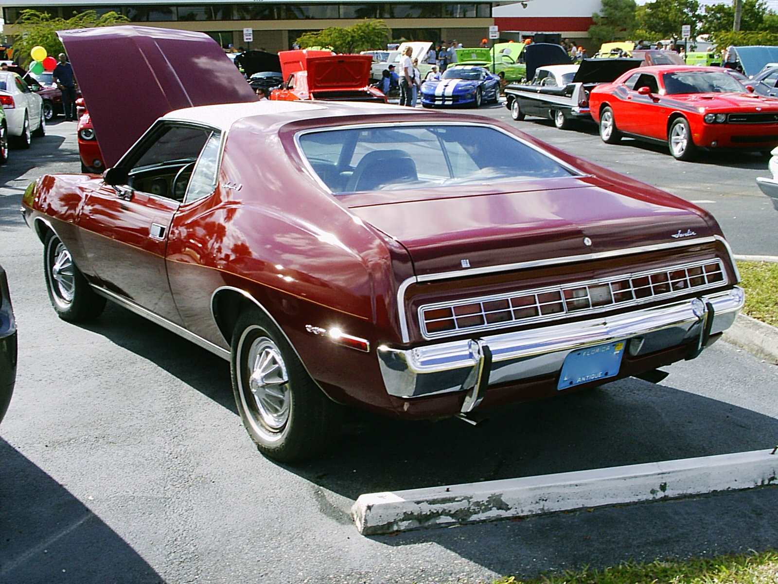 1971 Javelin SST coupe - rear view - built by American Motors Corporation (AMC). A "pony car" equipped with AMC's 360 CID (5.9 L) 2-barrel V8 engine, in original "driver" condition.